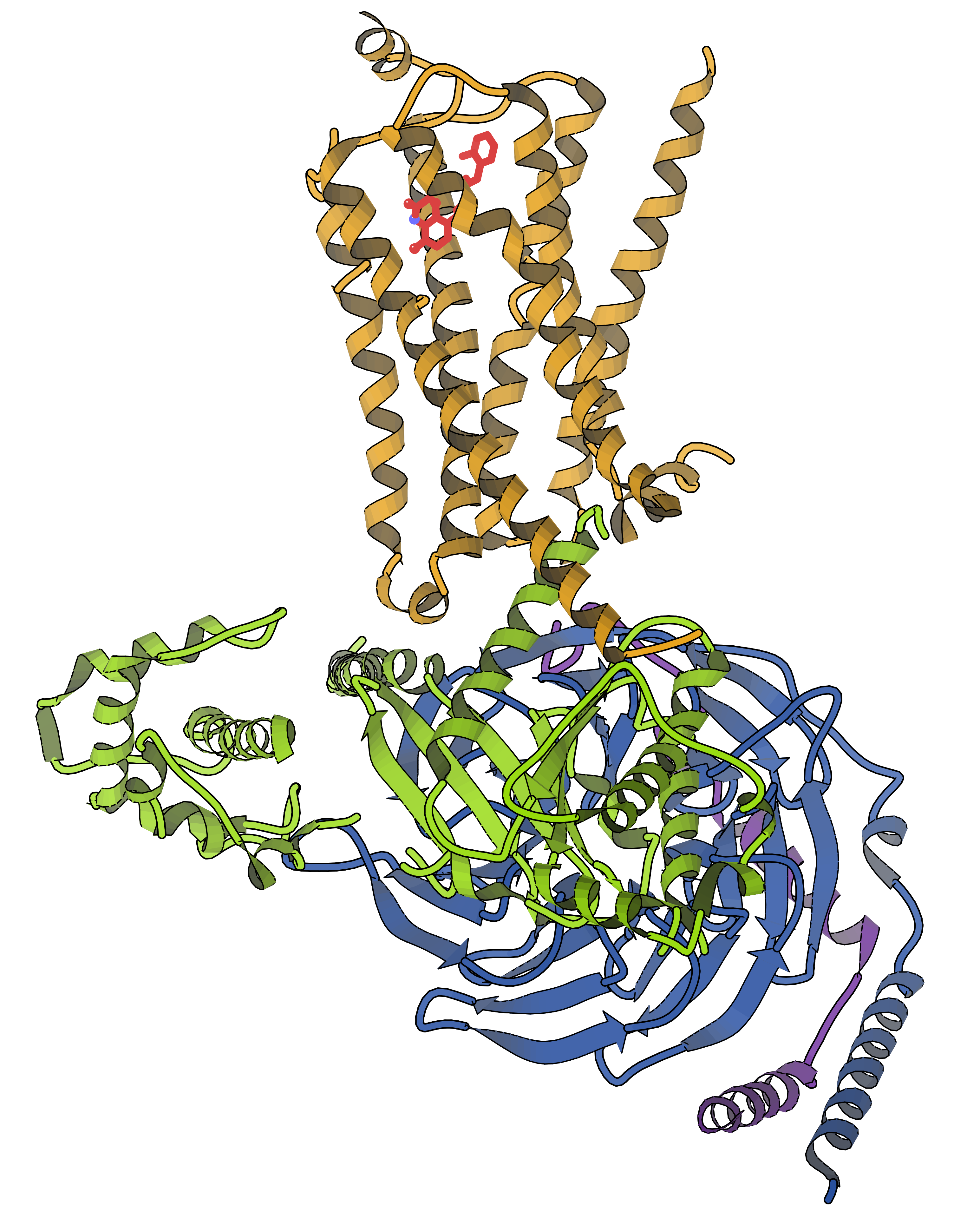 Ribbon schematic for the crystal structure of a G-protein-coupled receptor (beta2-adrenergic receptor, in gold) in complex with the G protein to which it signals (green, blue, and purple subunits). From PDB file 3sn6.